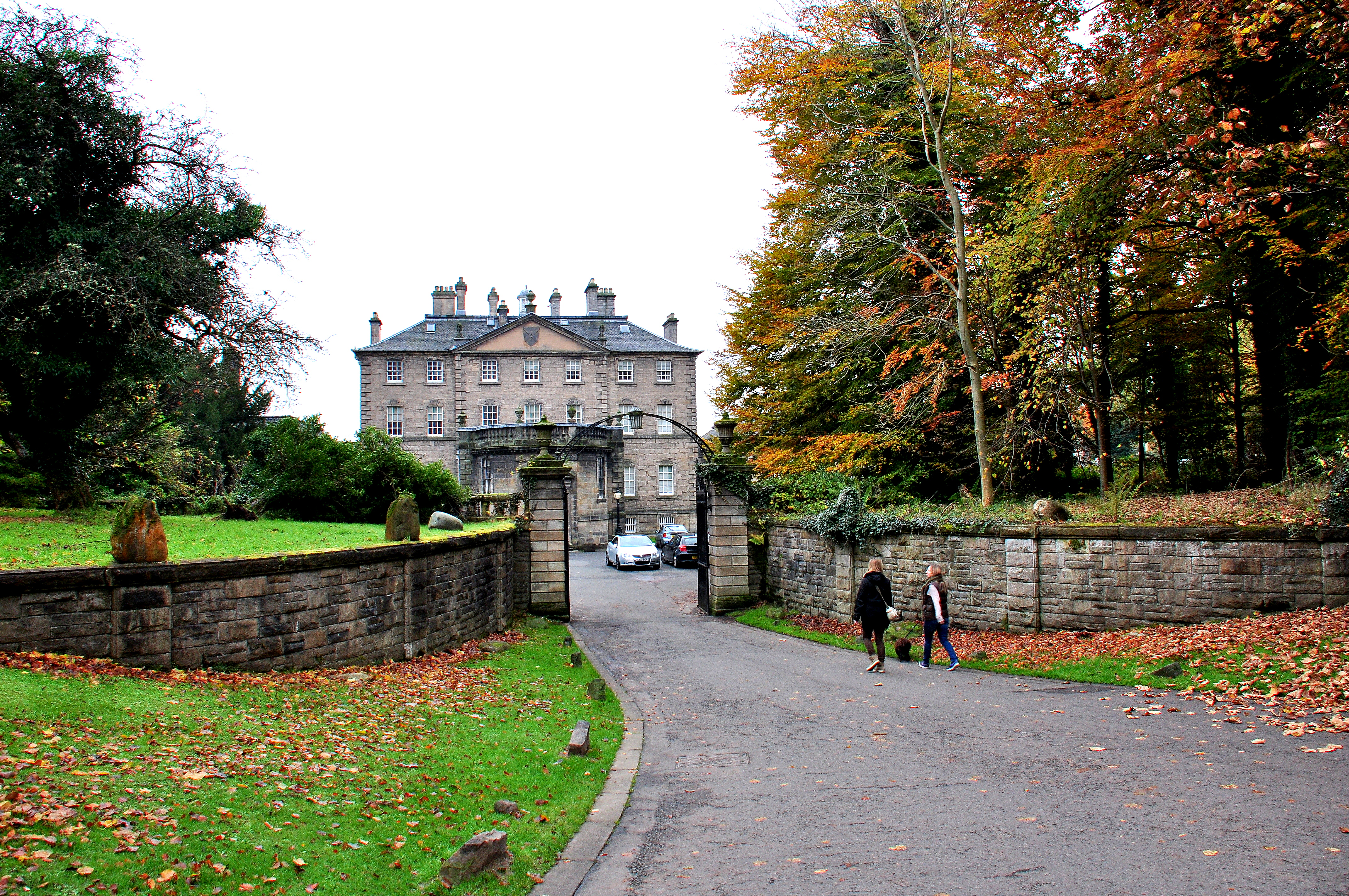 The entry into the Pollok House at the Pollok County Park. Glasgow, Scotland, the United Kingdom.